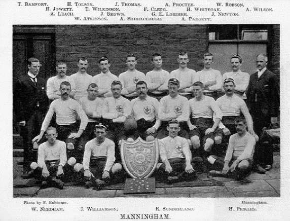 Manningham FC team, first champion of rugby league in England (then, "rugby football")